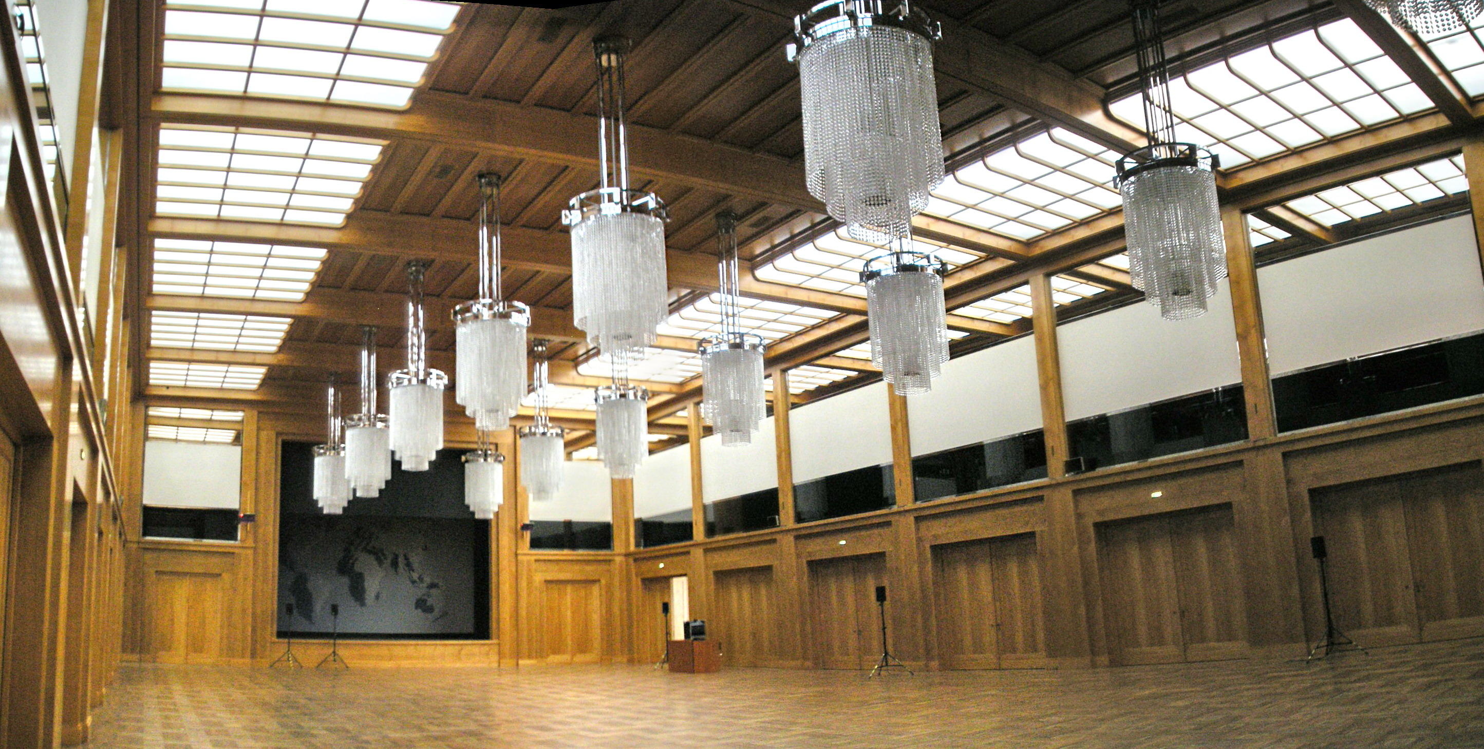 The so-called Weltsaal in the Foreign Office in Berlin, which is former main cashiers hall of the Reichsbank.